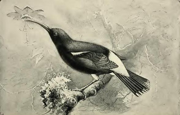 From LOST AND VANISHING BIRDS. Being a Record of some Remarkable Extinct Species and a Plea for some Threatened Forms. By CHARLES DIXON. (1898). From image: The mamo